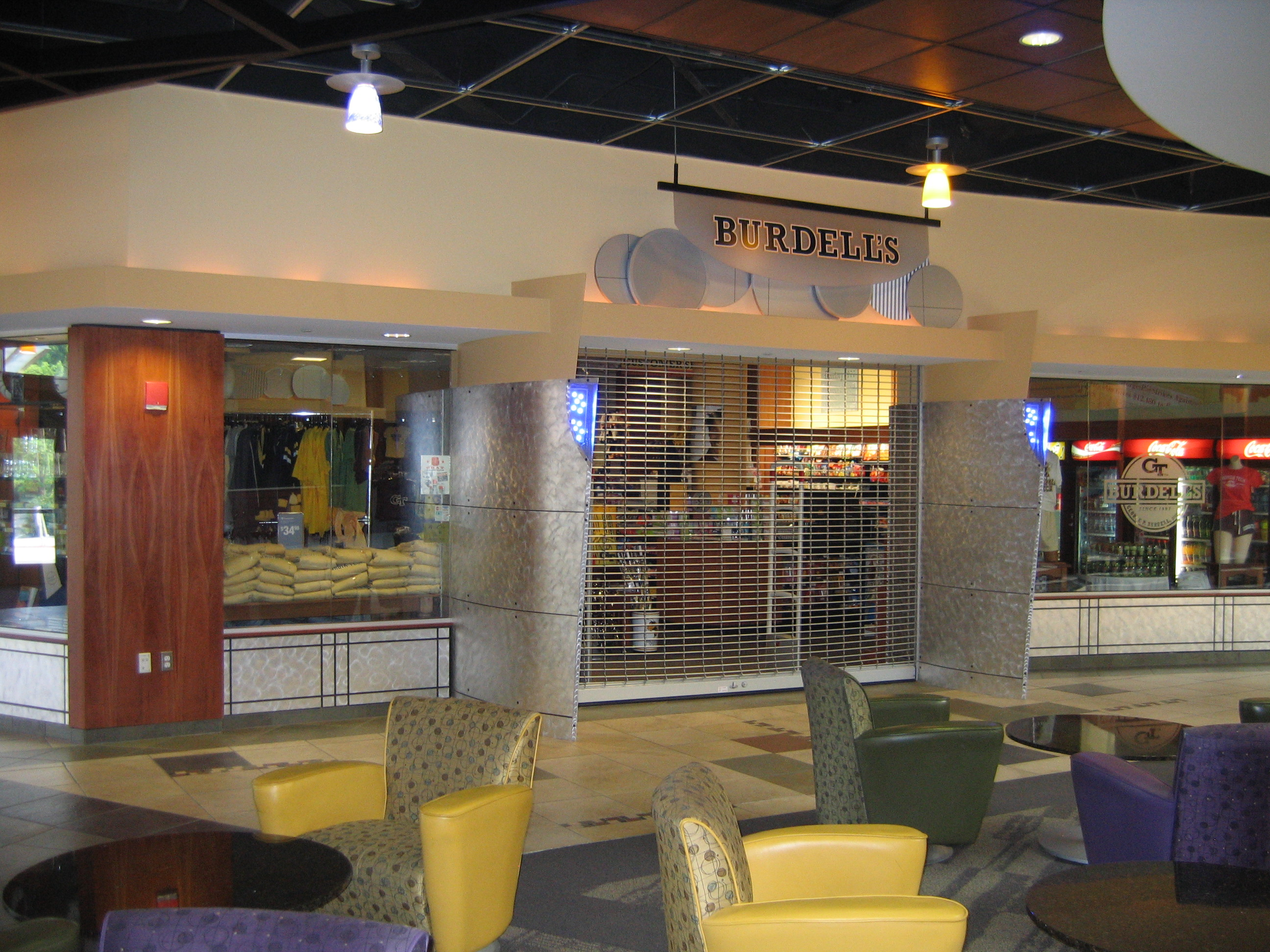 Burdell's, a shop in Georgia Tech's student center, named after George P. Burdell.